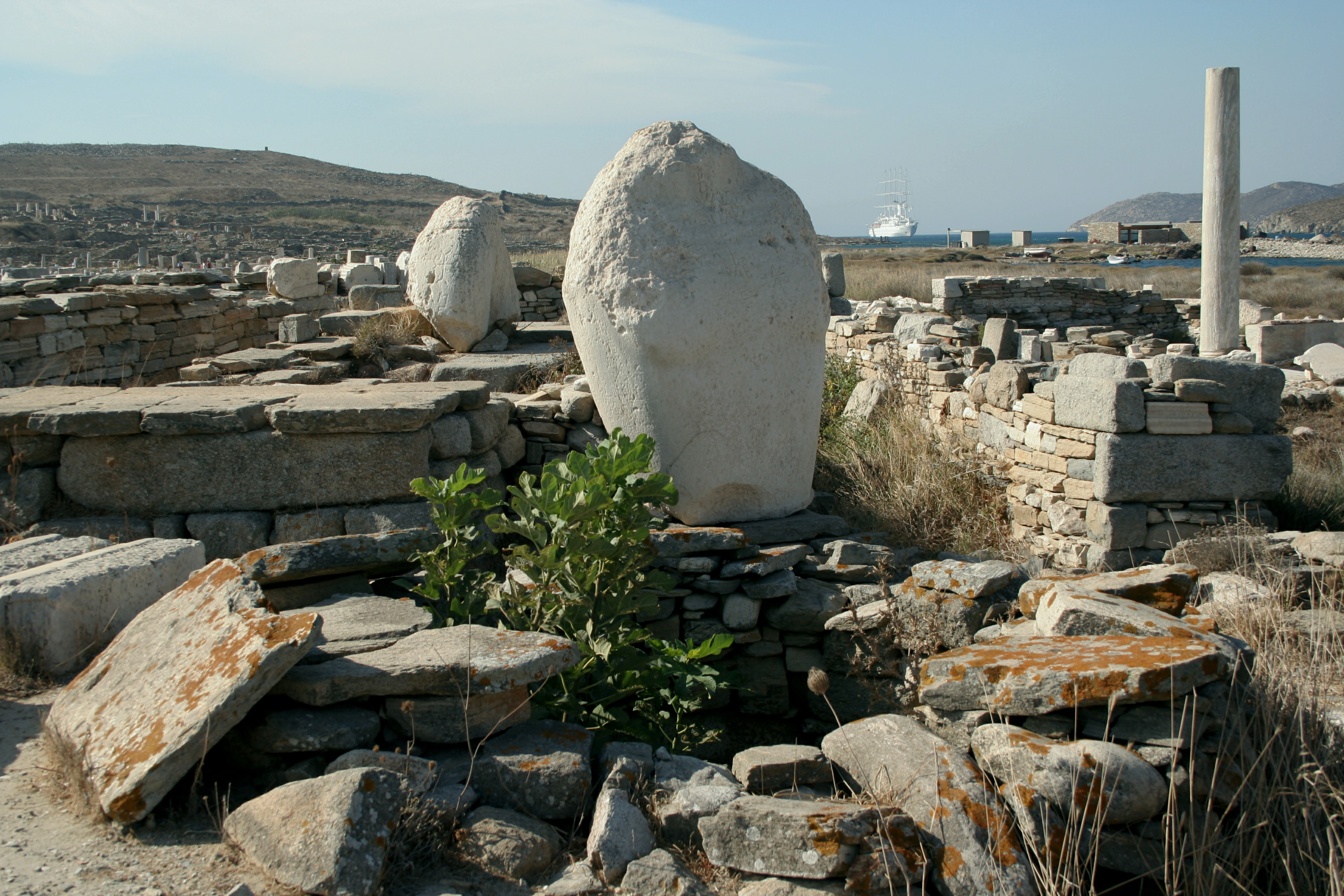 Torsos of Colossus of the Naxians over time came to Artemision.